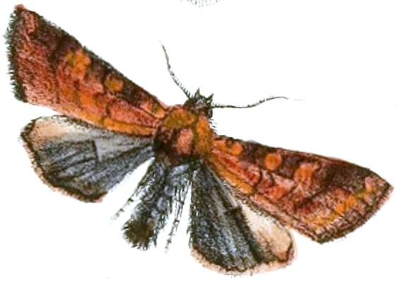 A male noctuid moth from Darjeeling